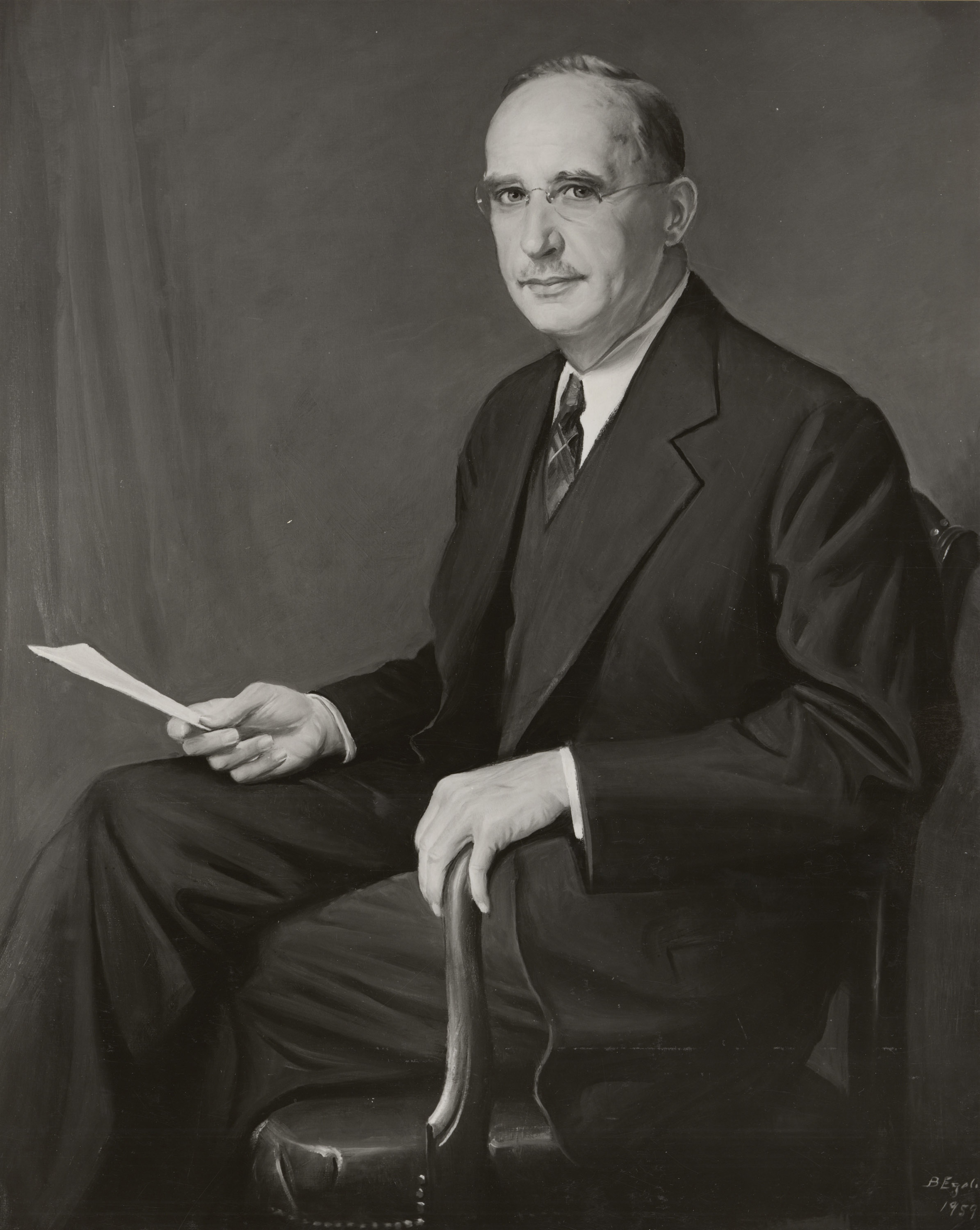 Original Caption: Dr. Solon Justus Buck, Second Archivist of the United States, ca. 1941 U.S. National Archives’ Local Identifier: 64-NA-1761 From:Historic Photograph File of National Archives Events and Personnel, compiled 1935 - 1975 Created By:: General Services Administration. National Archives and Records Service. Office of the Archivist of the United States. (1949 - 04/01/1985) Production Date: ca. 1941 Persistent URL: Repository: National Archives at College Park - Still Pictures (RD-DC-S) For information about ordering reproductions of photographs held by the Still Picture Unit, visit: Reproductions may be ordered via an independent vendor. NARA maintains a list of vendors at